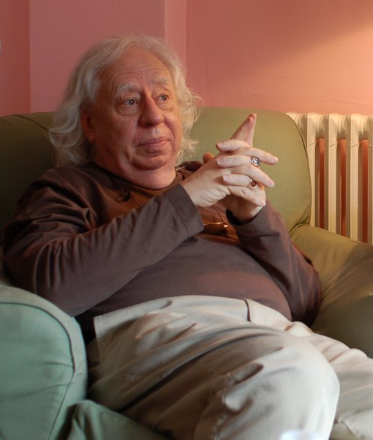 Edward Lucie-Smith at his home in Kensington, England